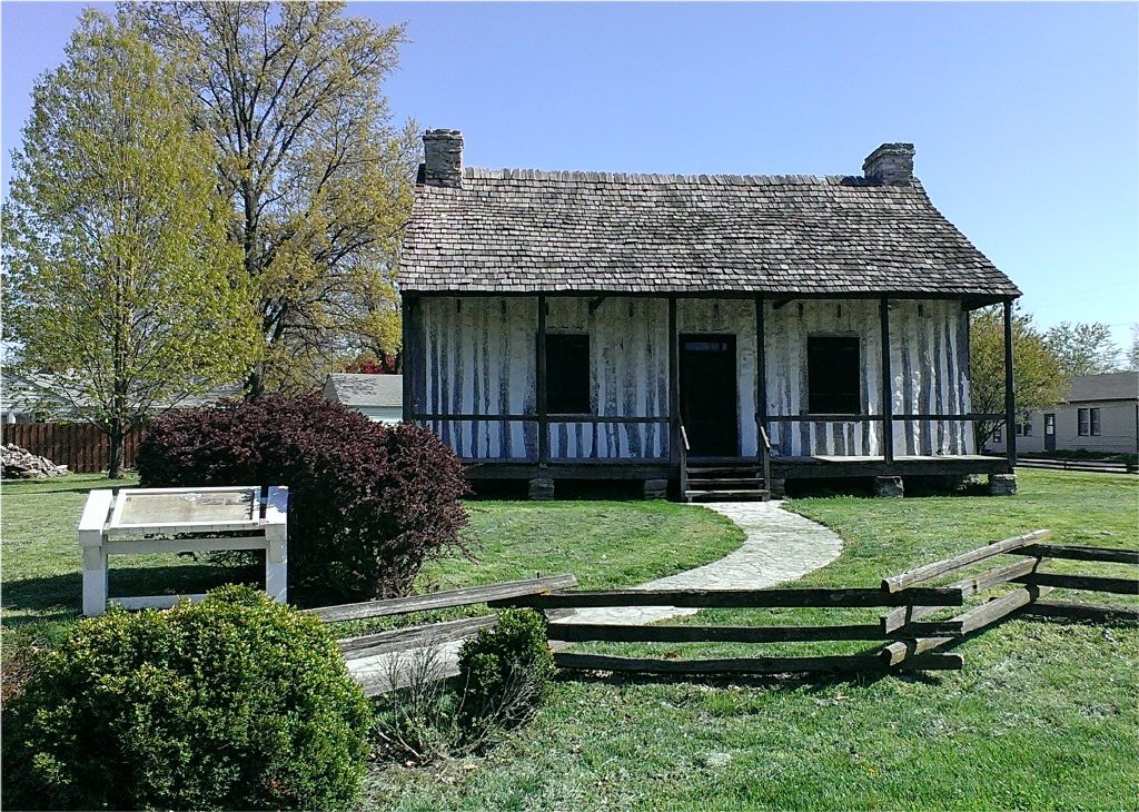 Photo of Martin Boismenue historic home as it stands today in East Carondelet, Illinois